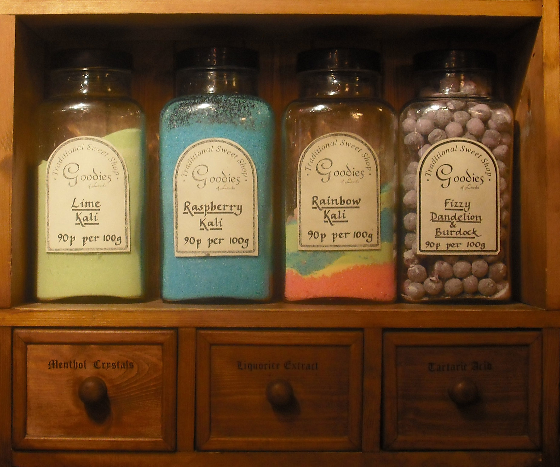 Jars of Kali or Sherbet powder. Photographed in Goodies traditional sweetshop, Steep Hill, Lincoln